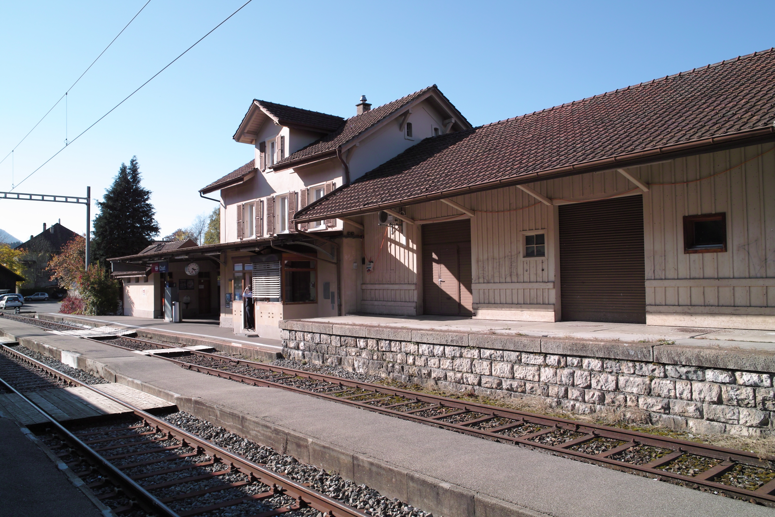 Railway station of Court (BE), Bernese Jura, Switzerland.